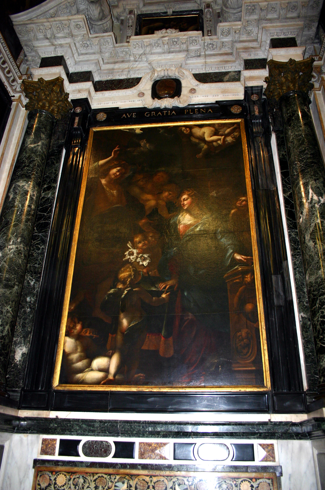 Giulio Cesare Procaccini, Annunciation [1610/11], painting in the "Annunciation chapel", within the church of Sant'Antonio Abate in Milan, Italy. Picture by Giovanni Dall'Orto, May 20 2007.